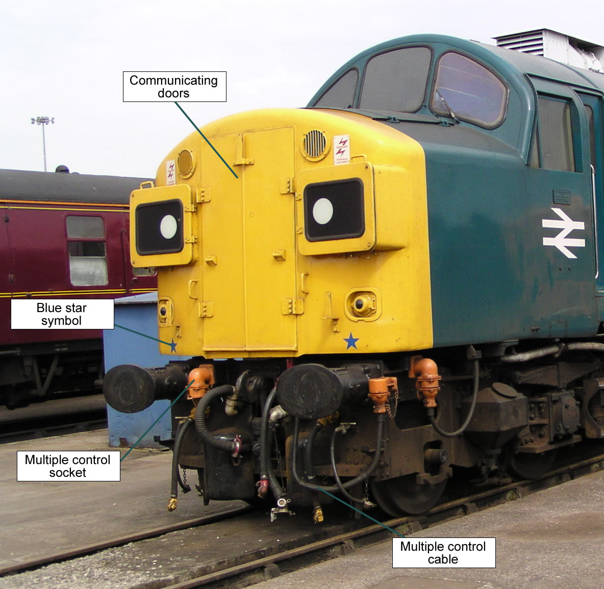 "Blue star" multiple working equipment as seen on BR Class 40, no. 40135 at Crewe Works on 1st June 2003.